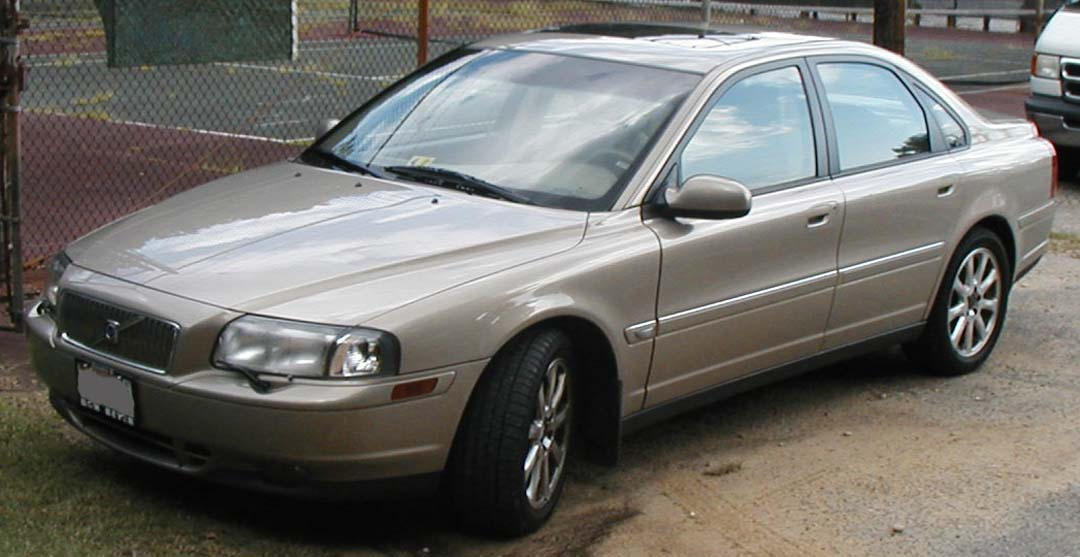 1999-2003 Volvo S80 photographed in USA.